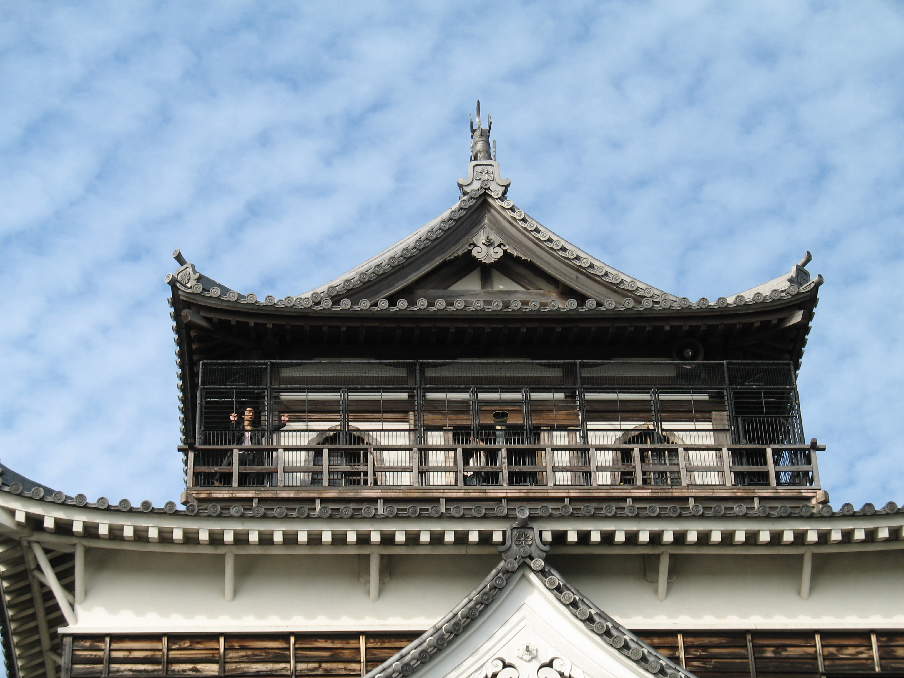 Hiroshima Castle. Hiroshima Castle, Hiroshima.